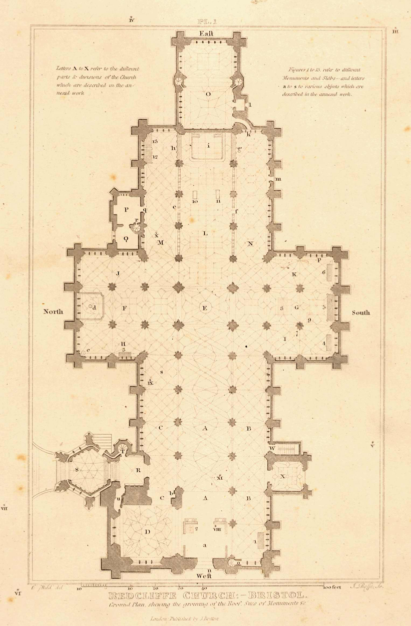 Black and white floorplan of St Mary Redcliffe church, Bristol, England, published before 1850. It shows the traditional cruciform shape of the church, with the large west tower and hexagonal north Porch. Also on the plan are faint lines showing the shapes of the vaulted arch ceilings between each column and wall.